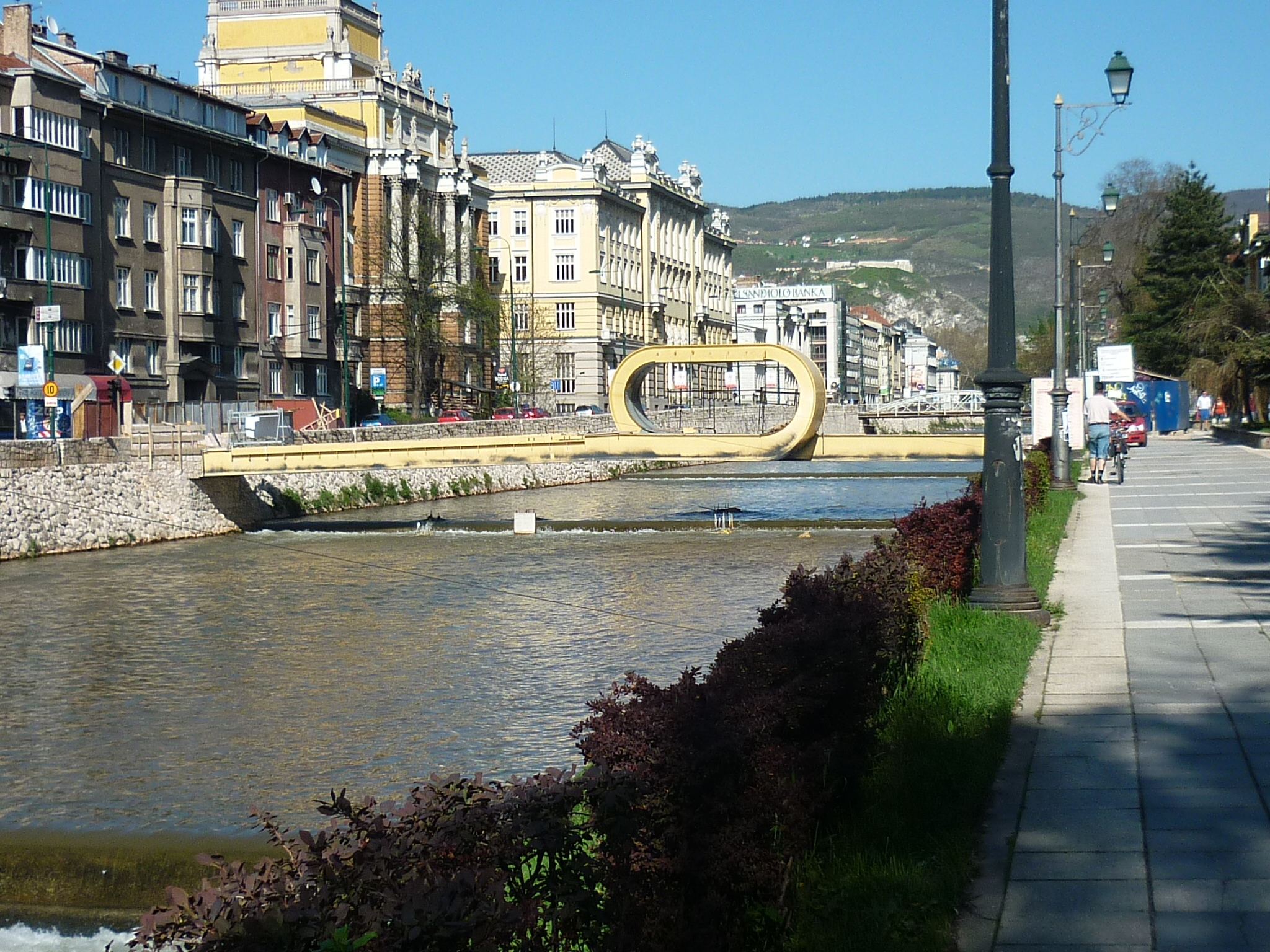 Bridge Festina Lente in Sarajevo over the river Miljacka, during construction